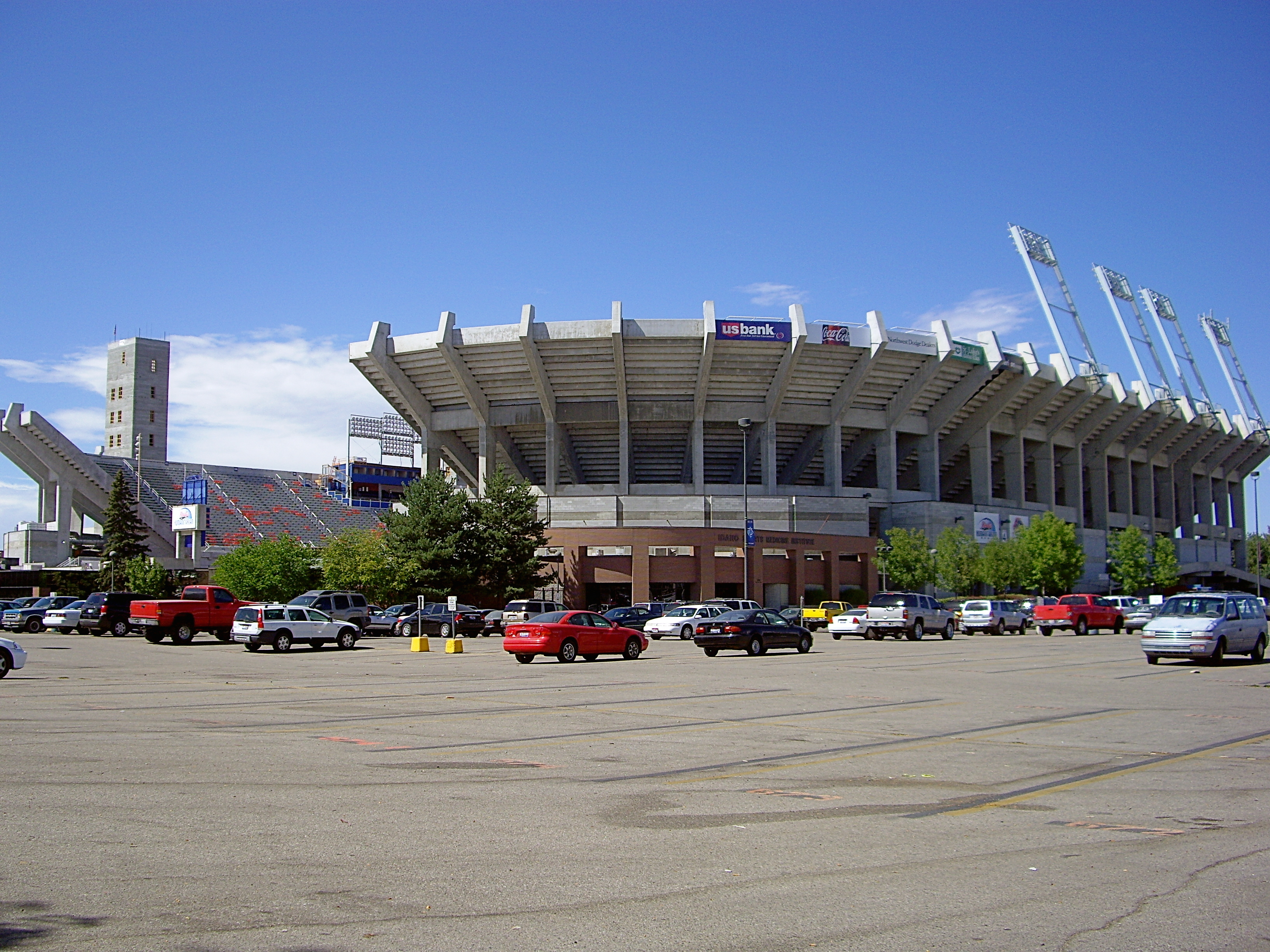 Bronco Stadium exterior from Corner of Broadway and University